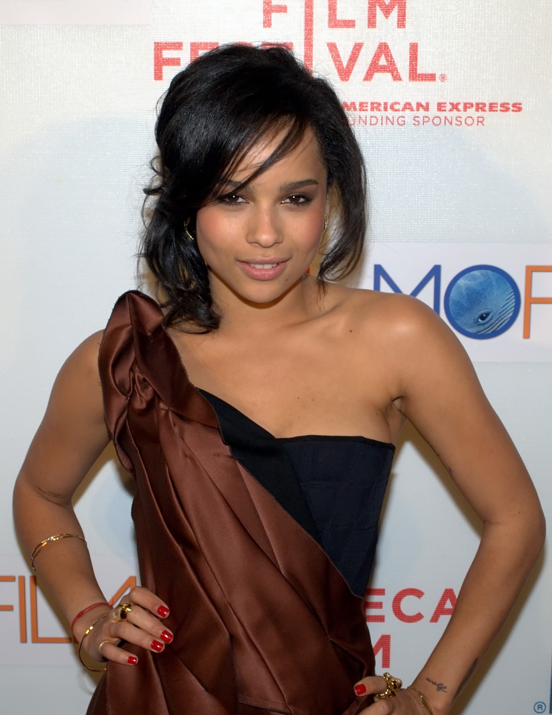 Zoe Kravitz at Tribeca Film Festival 2010